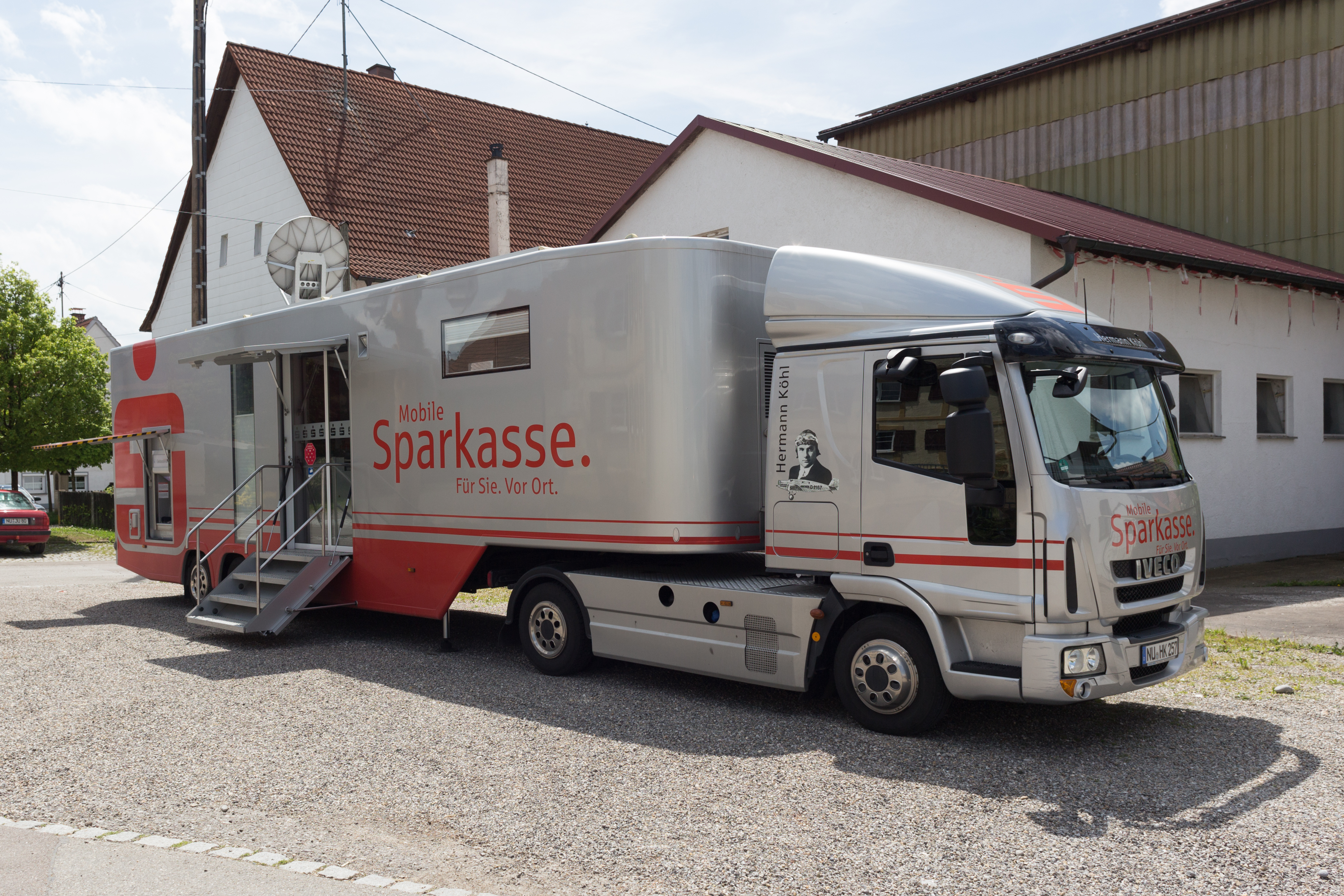 mobile bank branch of the german sparkasse. License plate NU HK 257.